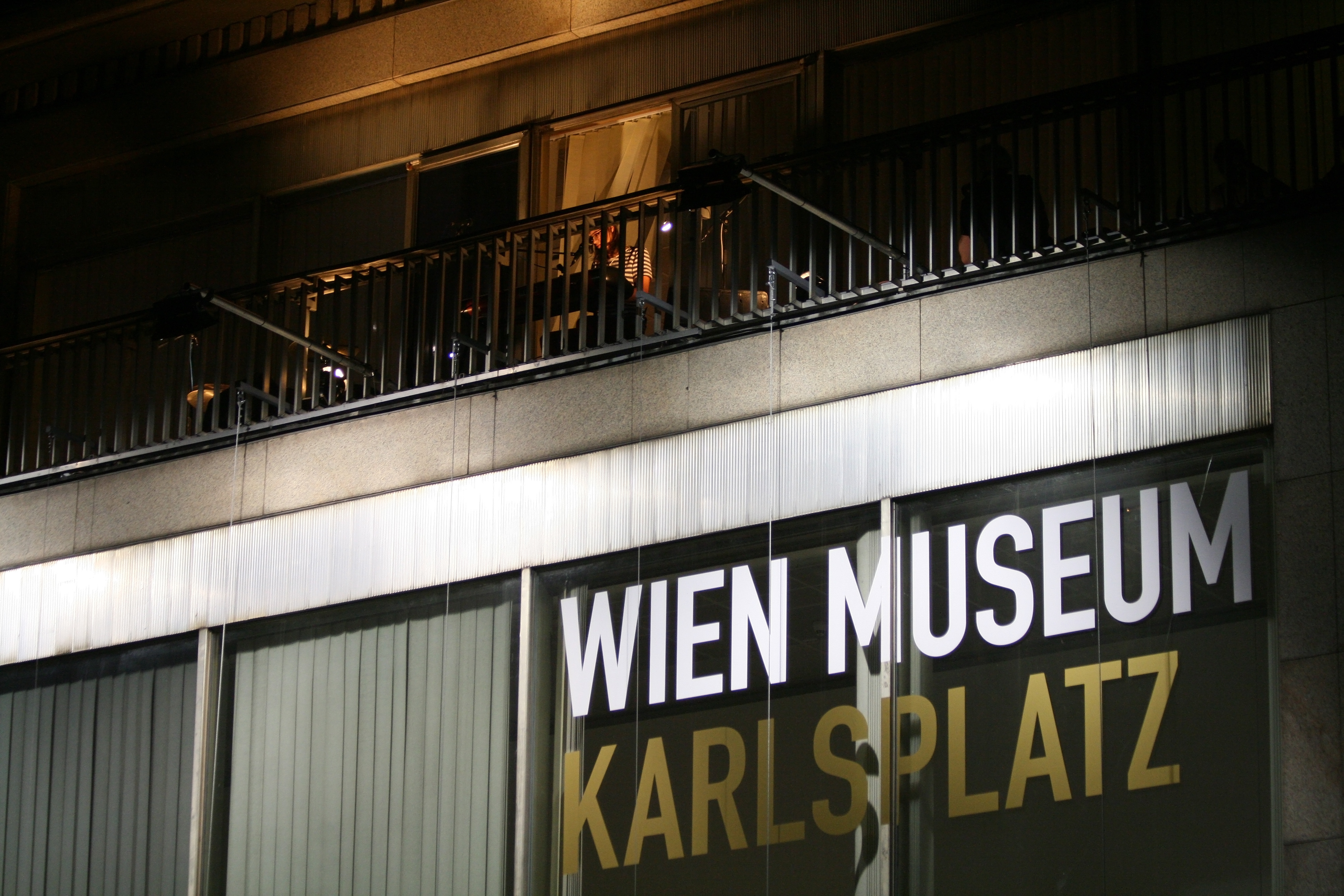 Concert of Austrian singer-songwriter Mel feat. Rotifer on the balcony of Vienna Museum on Karlsplatz in Vienna during Popfest 2012.